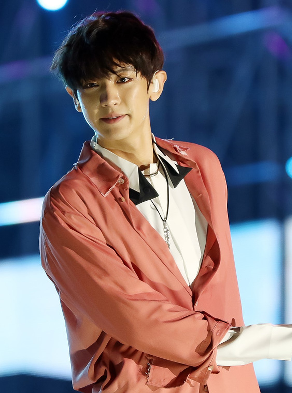 Chanyeol at Lotte Family Festival on October 22, 2016.